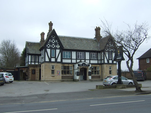 The Beacon Hotel, Aspley